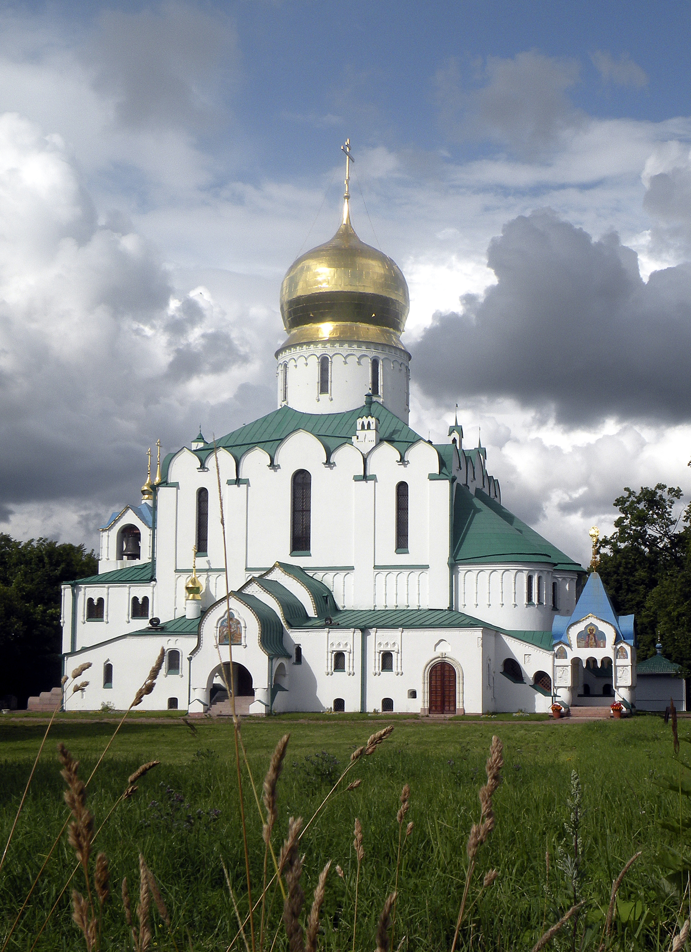 Feodorovsky Cathedral in Tsarskoye Selo